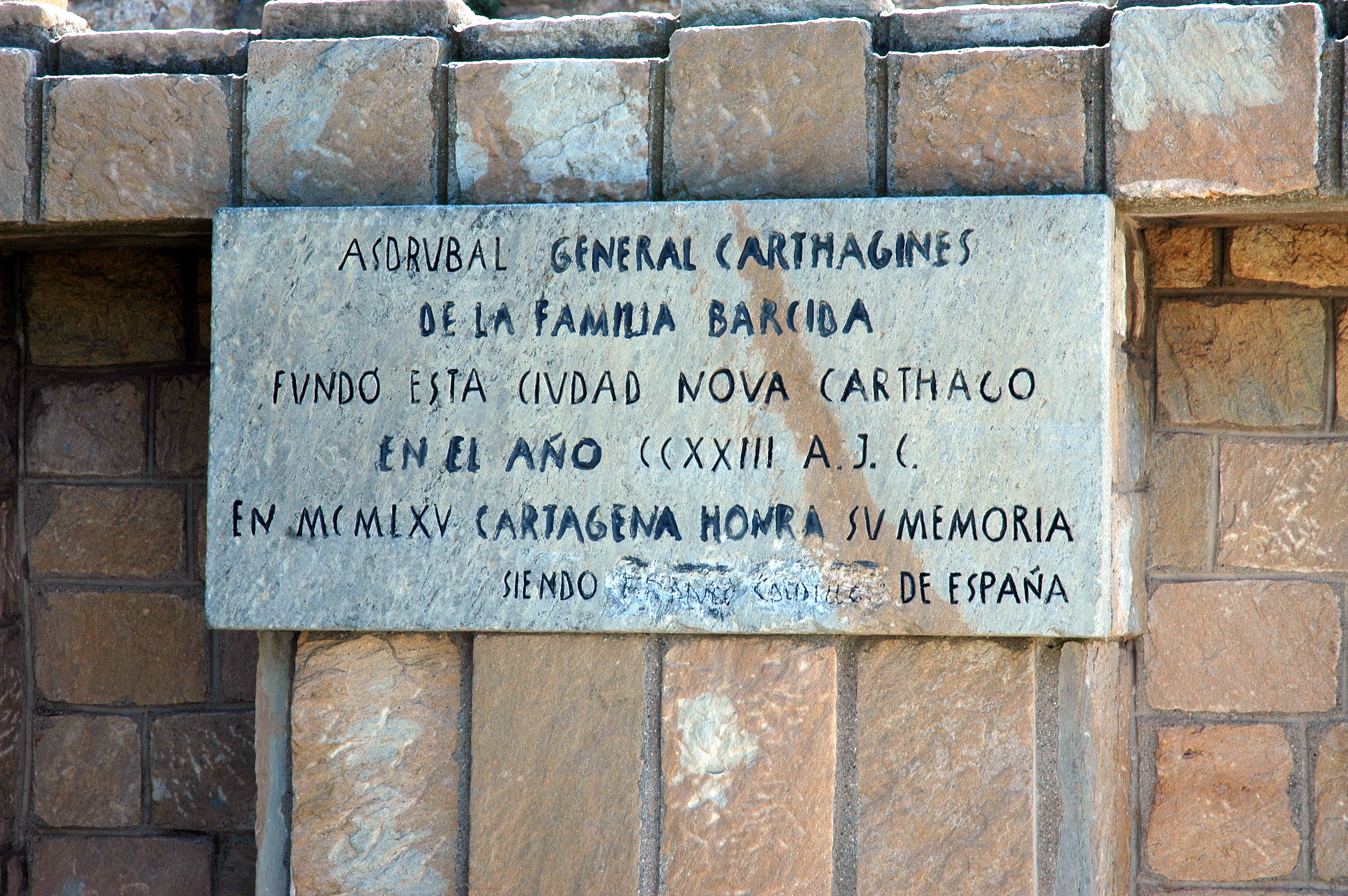 Detail of Hasdrubal the Fair bust plaque in Cartagena (Spain), which shows how has been removed the reference to Dictator Francisco Franco. "Hasdrubal, Carthaginian general from the Barcid family, founded this city, Nova Carthago, in CCXXIII BC. In MCMLXV, Cartagena honors his memory being [Franco Caudillo] of Spain".